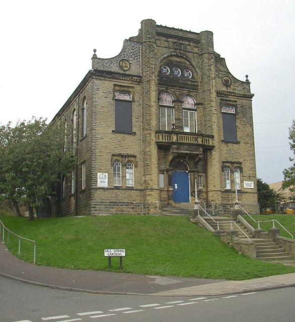 Community Centre, Stainland Road, Stainland